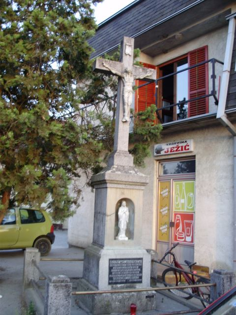 Crucifix in Cugovec